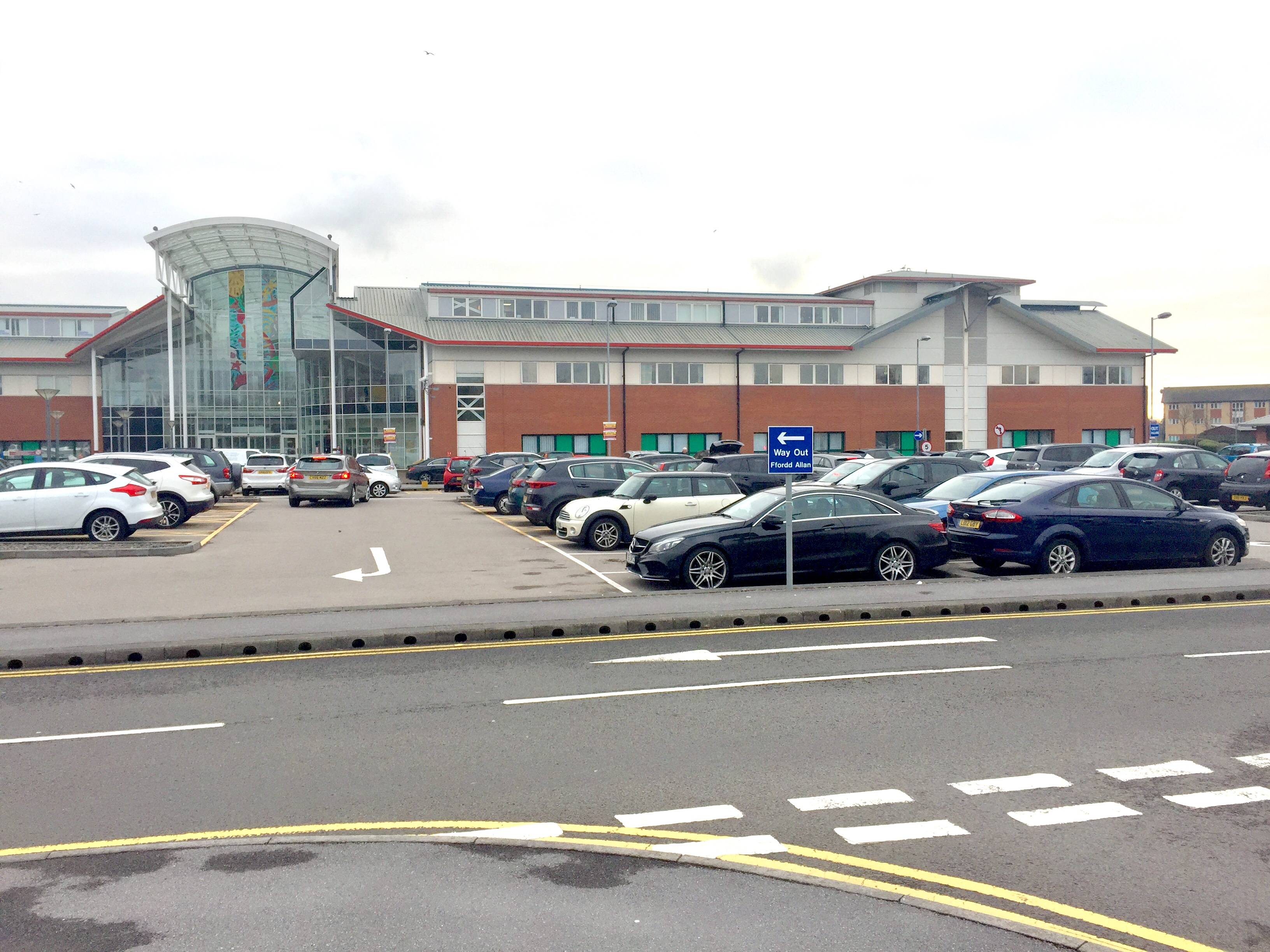 Neath Port Talbot Hospital. Neath Port Talbot Hospital is a non acute secondary care 270-bed hospital located in Port Talbot.